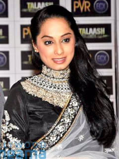 Ansha Sayed at Premiere of 'Talaash'